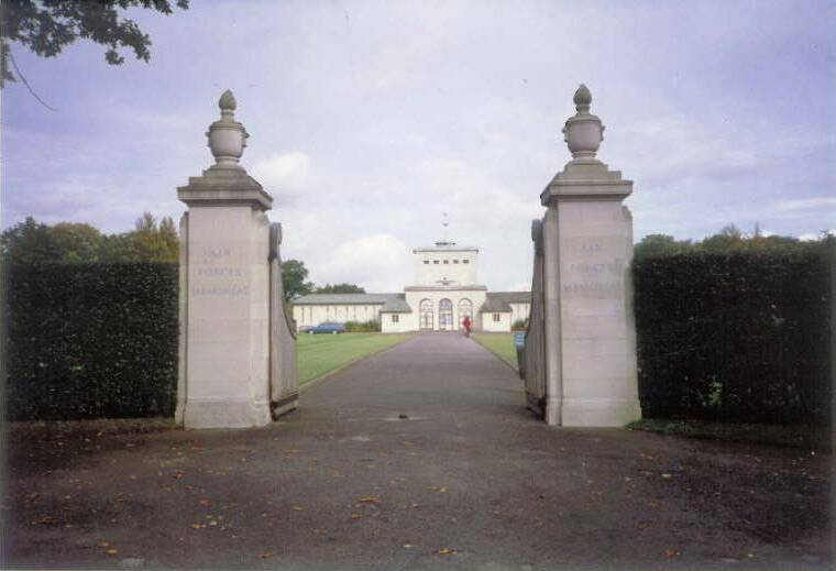 Air Forces Memorial, Runnymede, UK